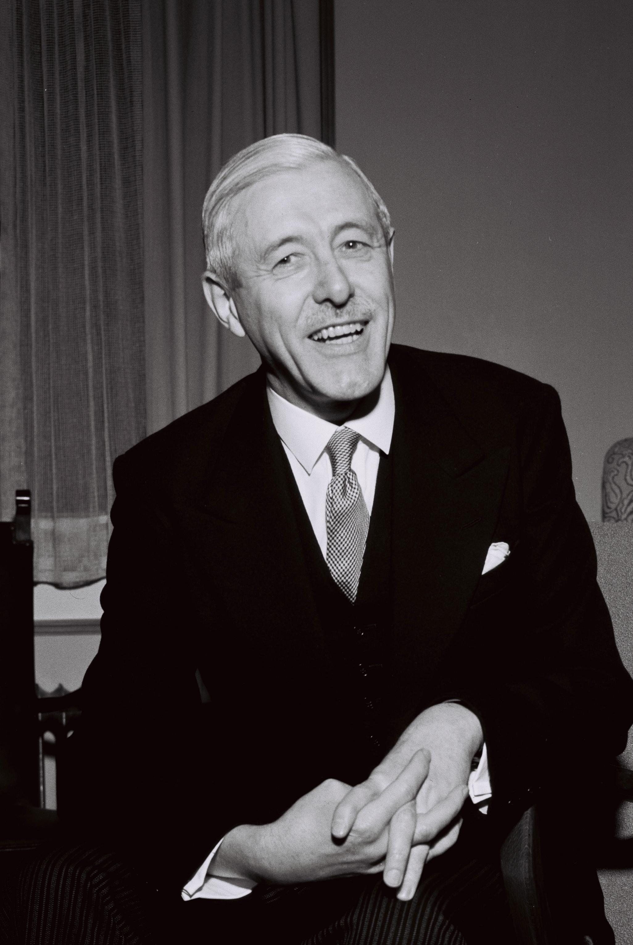 Original Description: British min. to Israel sir Francis Evans.